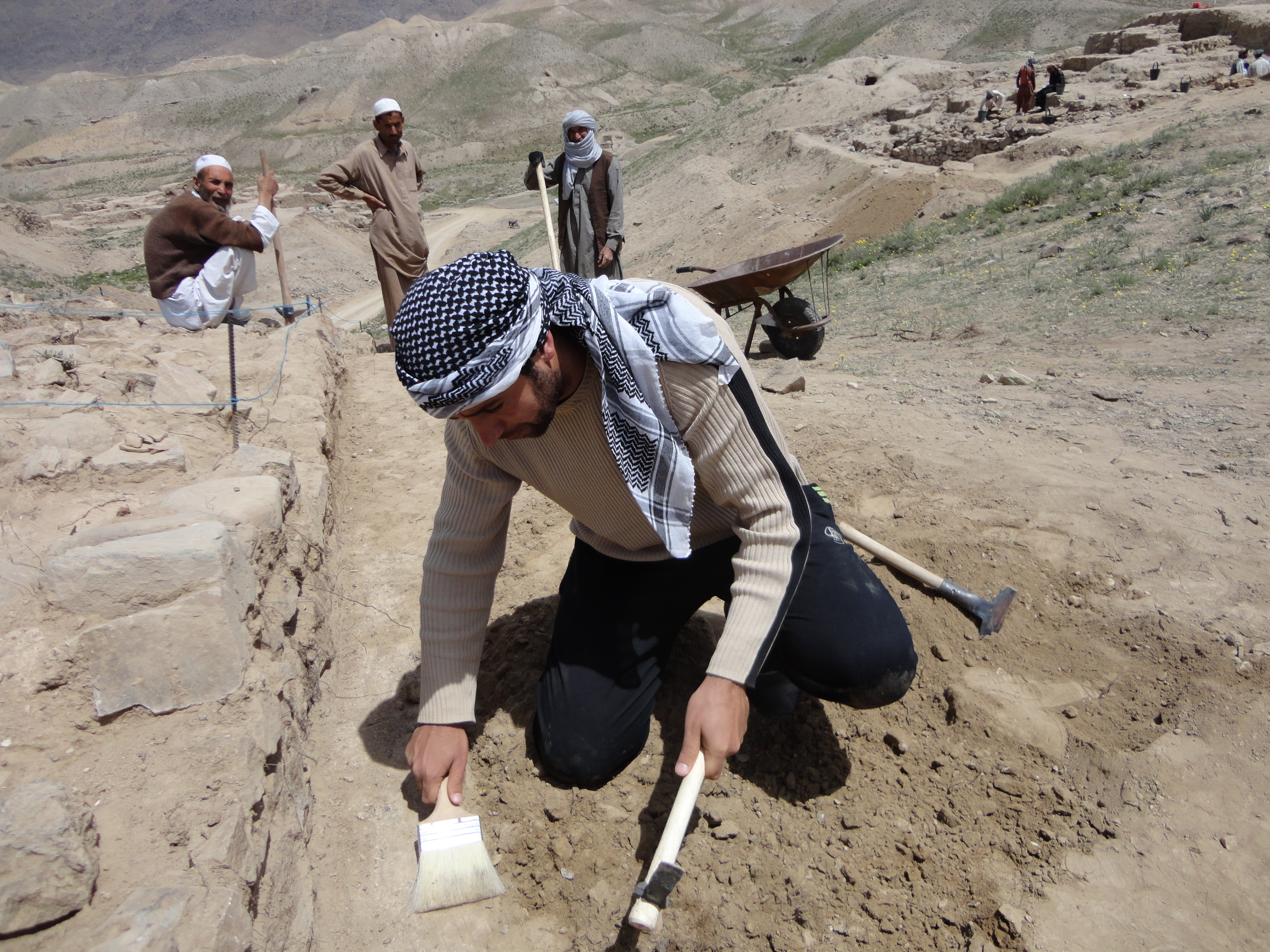 International Archaeologist